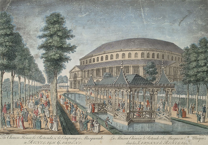 The Rotunda at Ranelagh Gardens in Chelsea near (now in) London by Thomas Bowles, 1754.